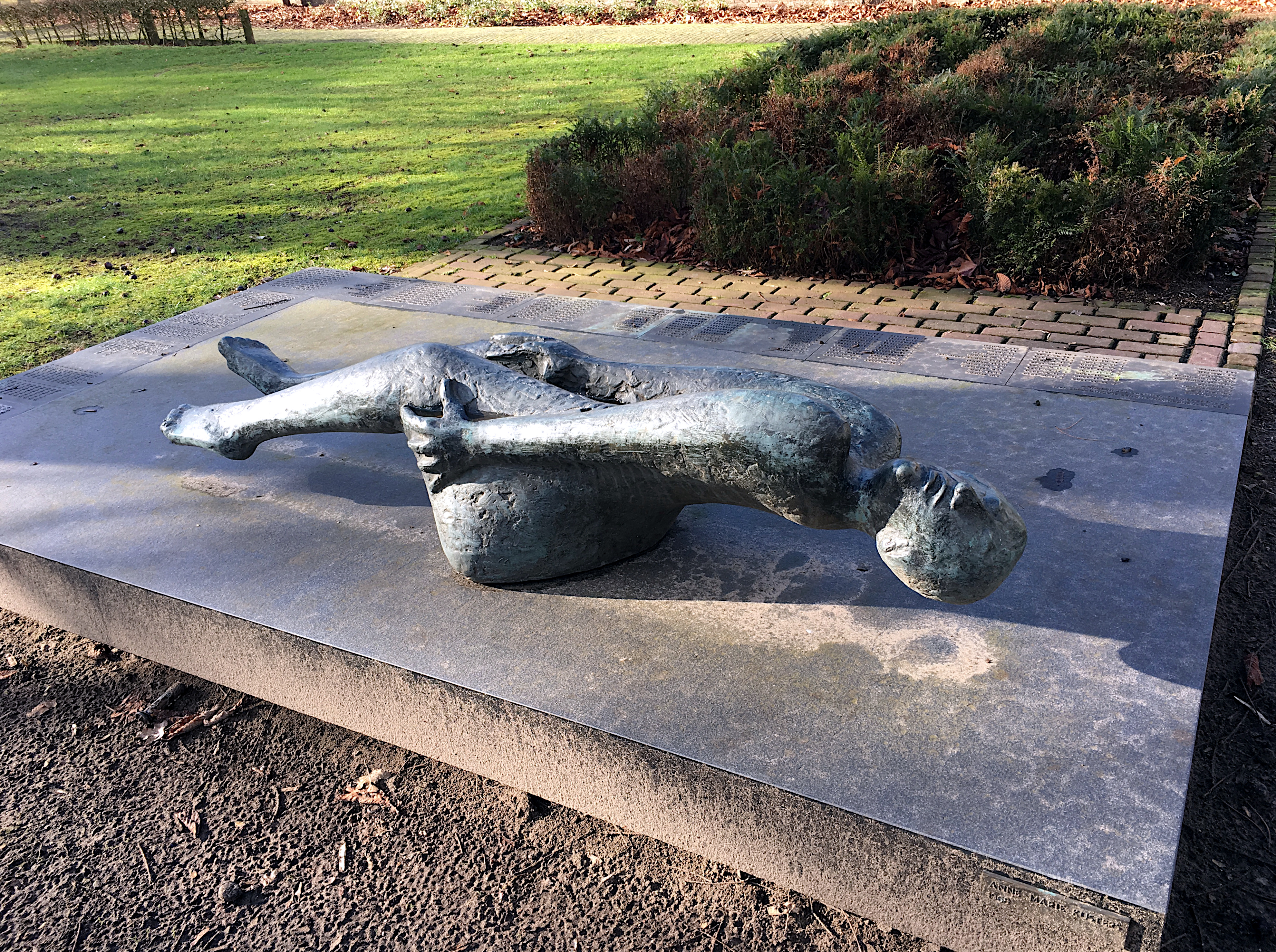 Warmonument De gevallen Mens by AnneMarie Leenders Kusters in Asten NL